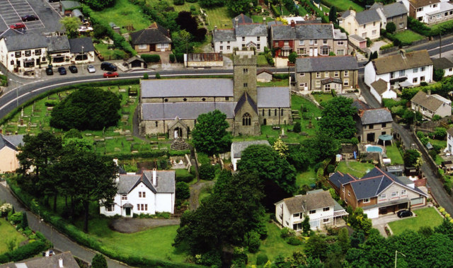 St.Crallo's Church Coychurch The Welsh name for the Village of Coychurch is Llangrallo. Obviously, named after St.Crallo. The white house, bottom left is the Rectory now used as the Llandaff Diocesan Office. The two houses, bottom right, are built on the site of a 7th Century Collegiate. The Church is of the 12th Century.